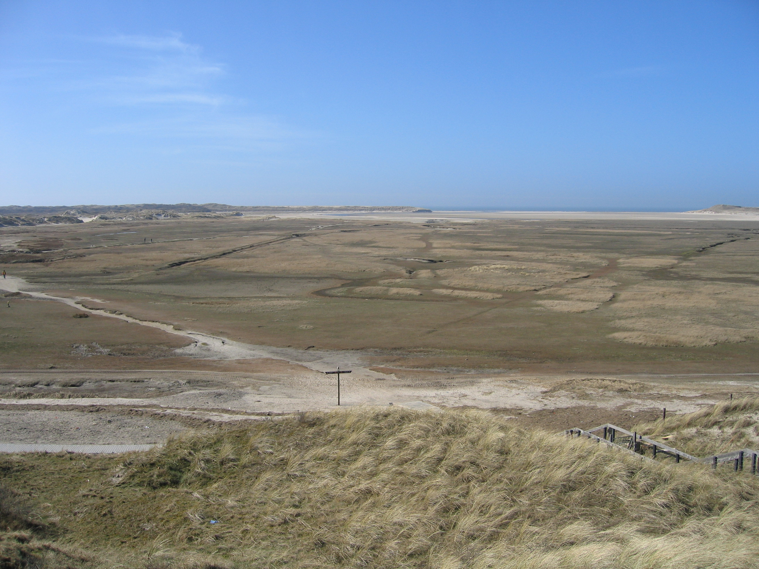 Overview (from the eastern dunes) of De Slufter on the dutch island Texel.